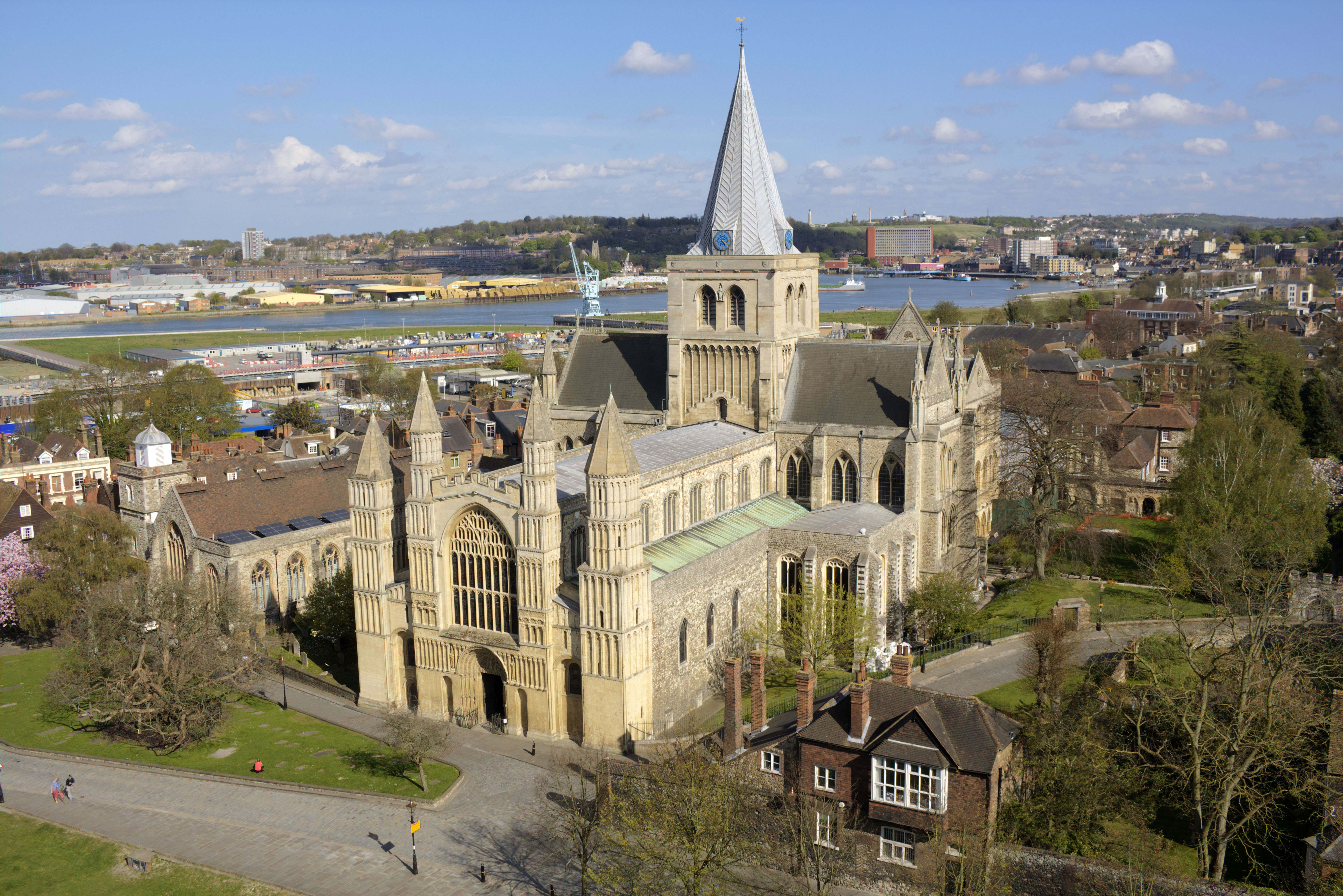 Rochester Cathedral, southwest view